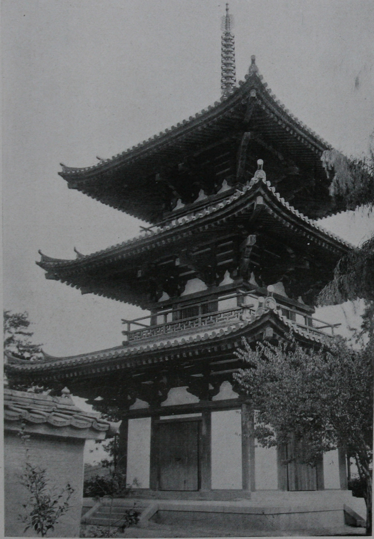 Three Story Pagoda of Horinji (Ikaruga) before Fire in 1944 Architecture in 7th century